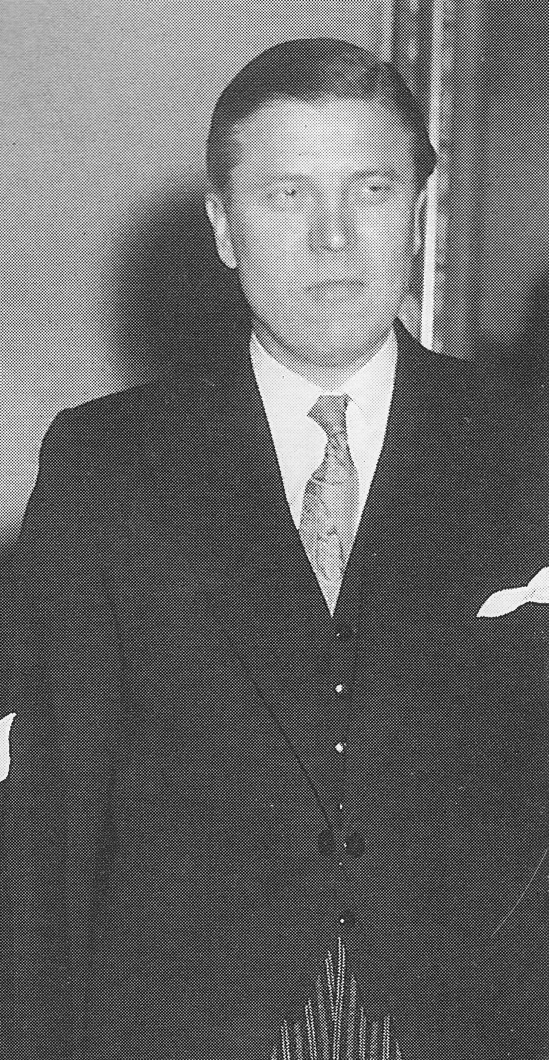 Johannes Virolainen